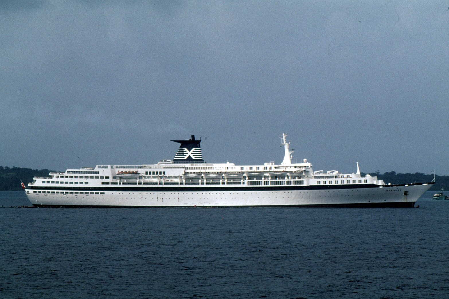 The cruise ship Meridian at San Blas Islands on December 11, 1993.